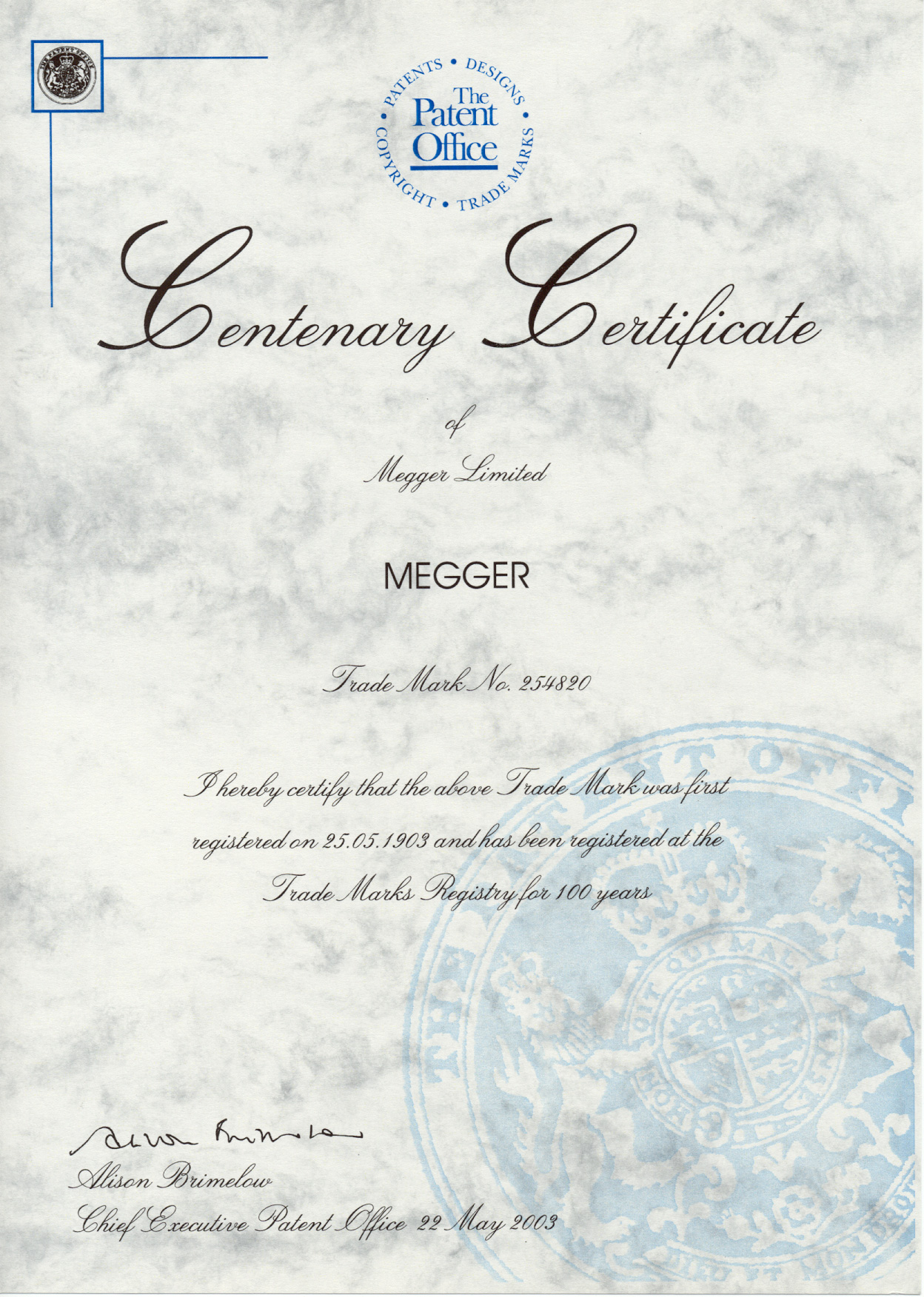 Centenary Certificate from Patent Office - 100 years of Megger trademark.